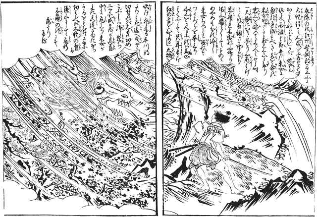 Hirakawa Uneme's large snake extermination (平川采女異蛇を斬) from Ehon-Sayo-Shigure (絵本小夜時雨)